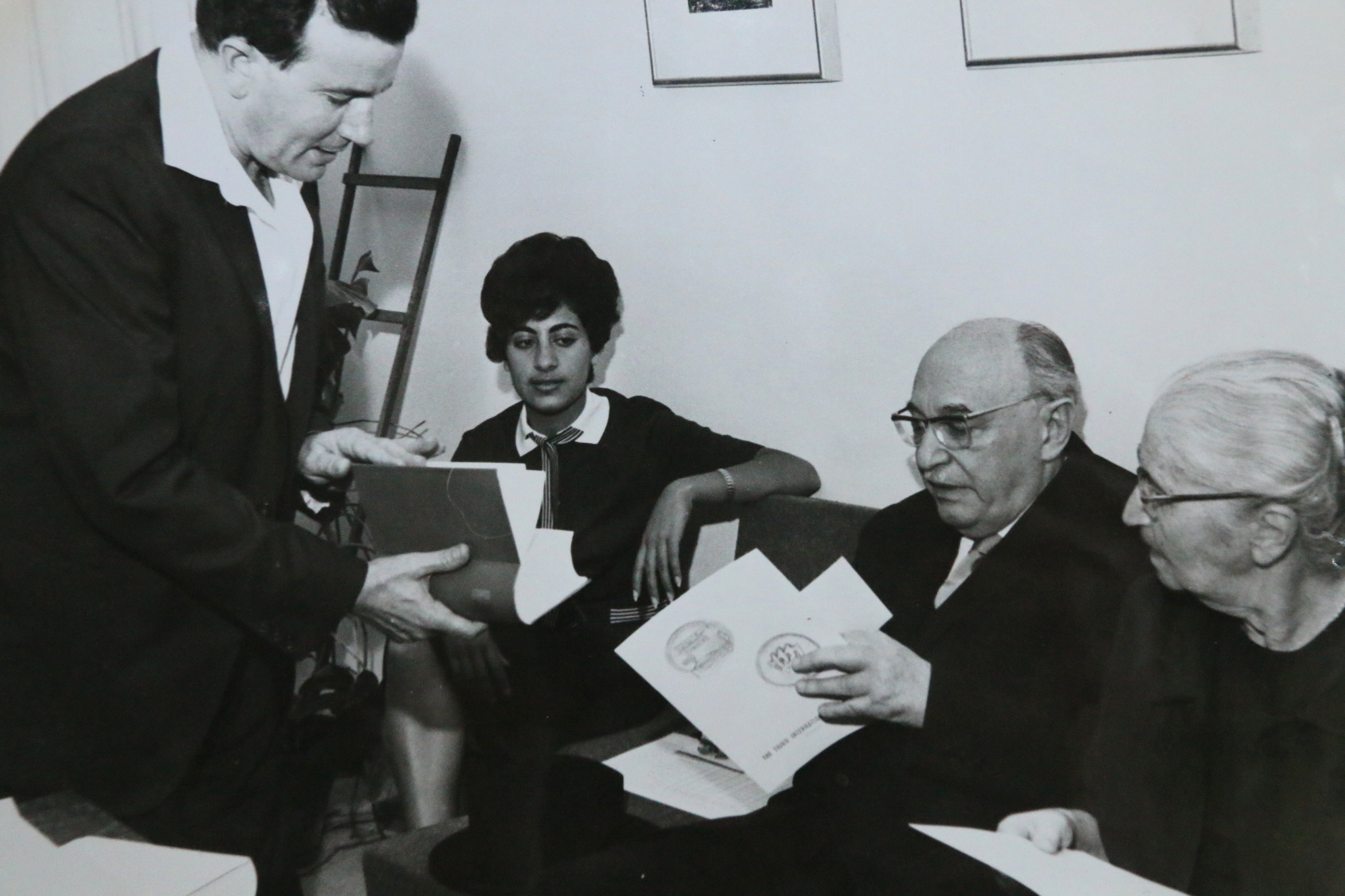 יהודה אילן מארגן חידון התנ״ך, מעניק ספר תנ״ך לנשיא זלמן שזר במעמד חידון התנ״ך העולמי 1964